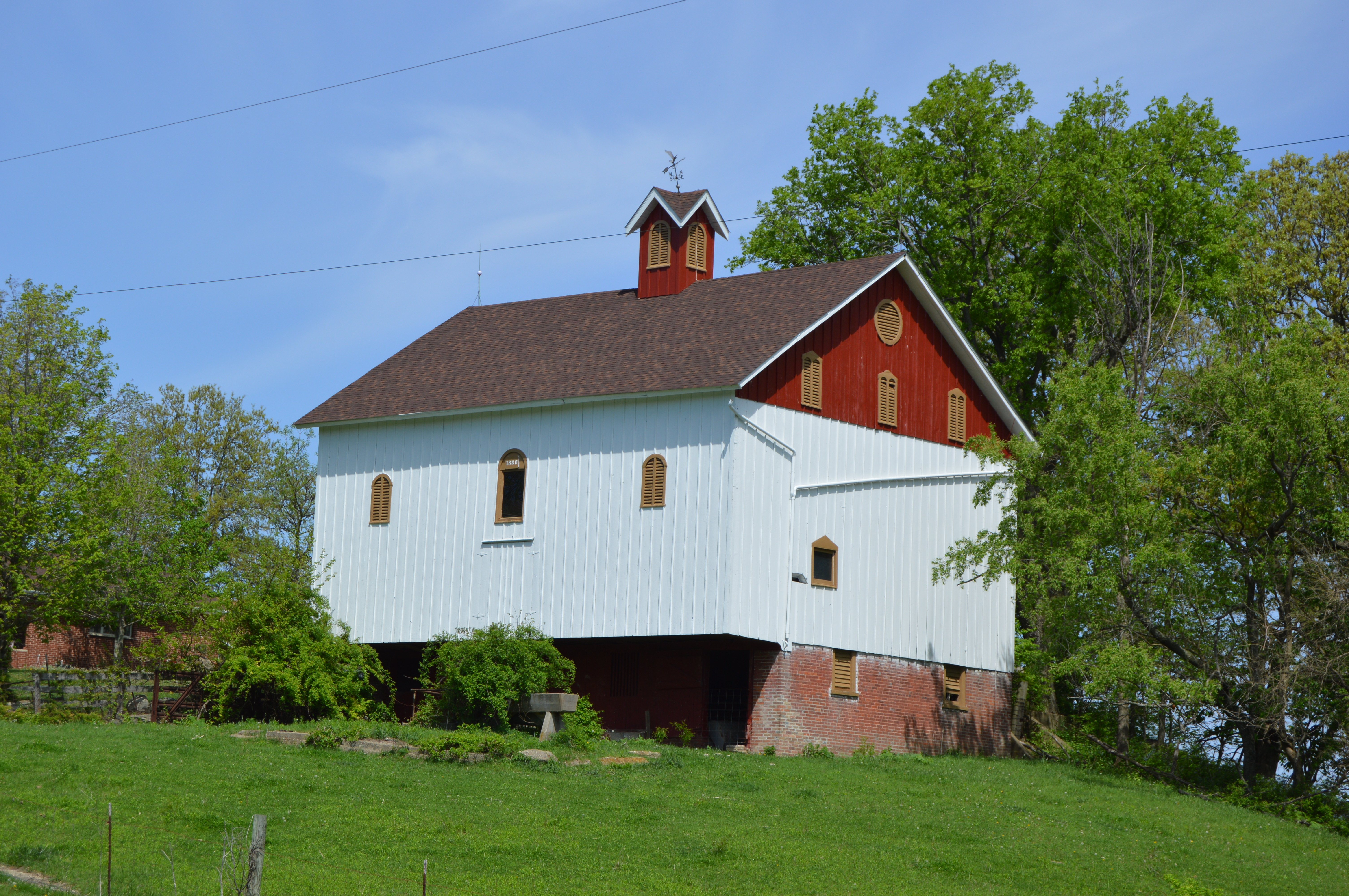 Front and eastern side of the barn on Kirby Road just west of the Coulters Mill Road intersection, located southeast of Oreana in Whitmore Township, Macon County, Illinois, United States.